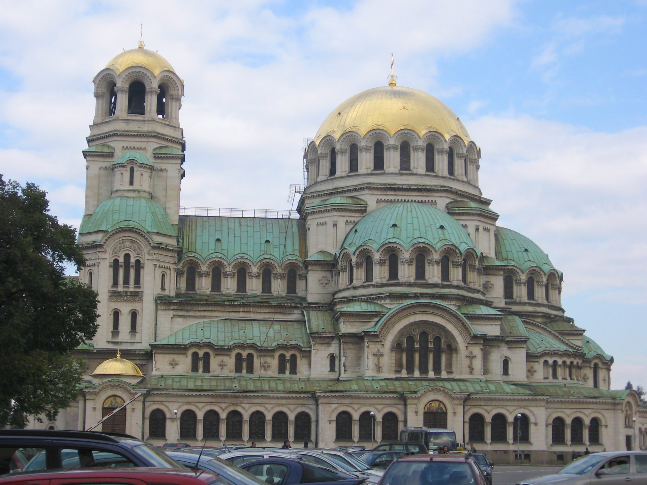 Alexander Nevsky Cathedral in Sophia